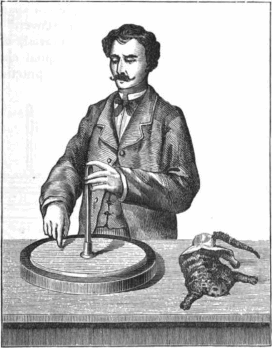 Drawing showing the operation of an electrophorus, a simple manual electrostatic generator invented in 1762 by Swedish professor Johan Carl Wilcke. The electrophorus consists of a flat "cake" of dielectric material such as pitch or wax, and a metal plate with an insulated handle that sits on top of it. The cake is first charged by rubbing it with fur (right) and the plate is set on top of it. The charge of the cake causes the charges in the metal plate to separate due to electrostatic induction; if the cake is charged positively, the top of the plate aquires a positive charge and the bottom acquires a negative charge. Then the top of the plate is grounded by touching it with a finger (shown). The positive charges on top of the plate drain off to ground. Then the plate with its remaining negative charge is lifted off the cake.